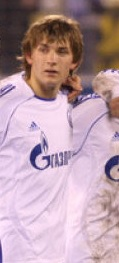 Yury Lebedev as a p0layer of FC Zenit St. Petersburg